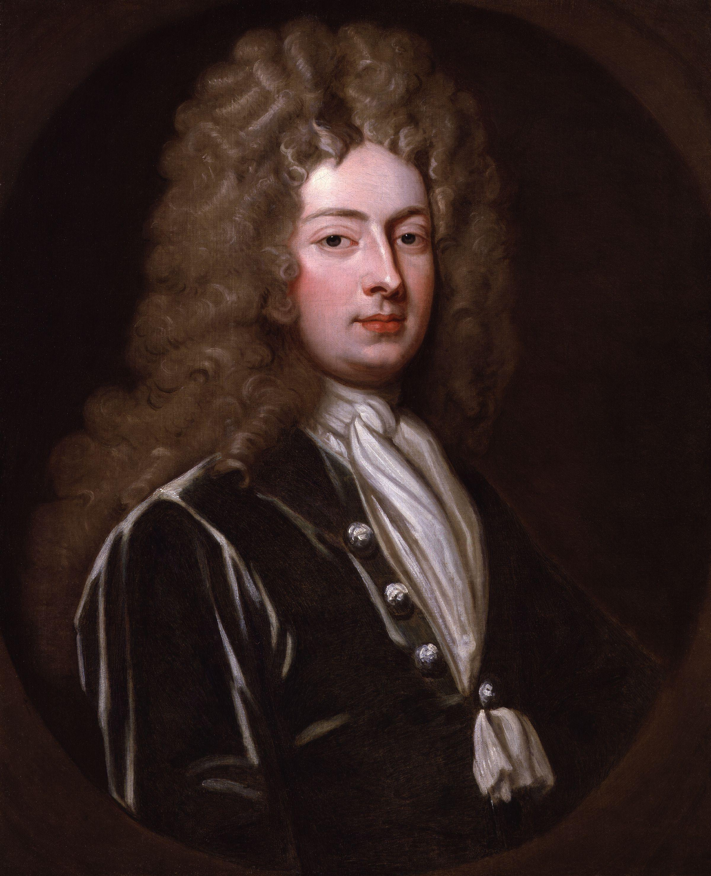 William Congreve, by Sir Godfrey Kneller, Bt (died 1723). All images in this batch have been confirmed as author died before 1939 according to the official death date listed by the NPG.